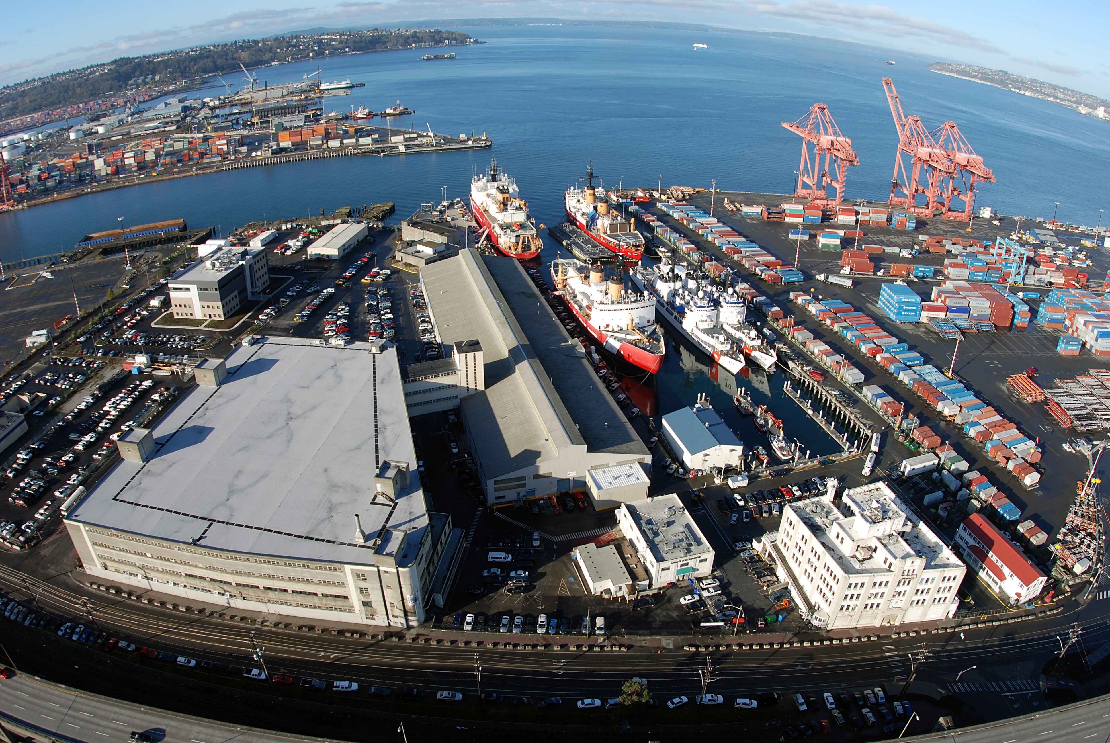 SEATTLE - A quick flight in an HH-65C Dolphin helicopter from Coast Guard Air Station Port Angeles gives a bird's eye view to Seattle and the Coast Guard Integrated Support Command below. (Official Coast Guard photo by Petty Officer 3rd Class Tara Molle)